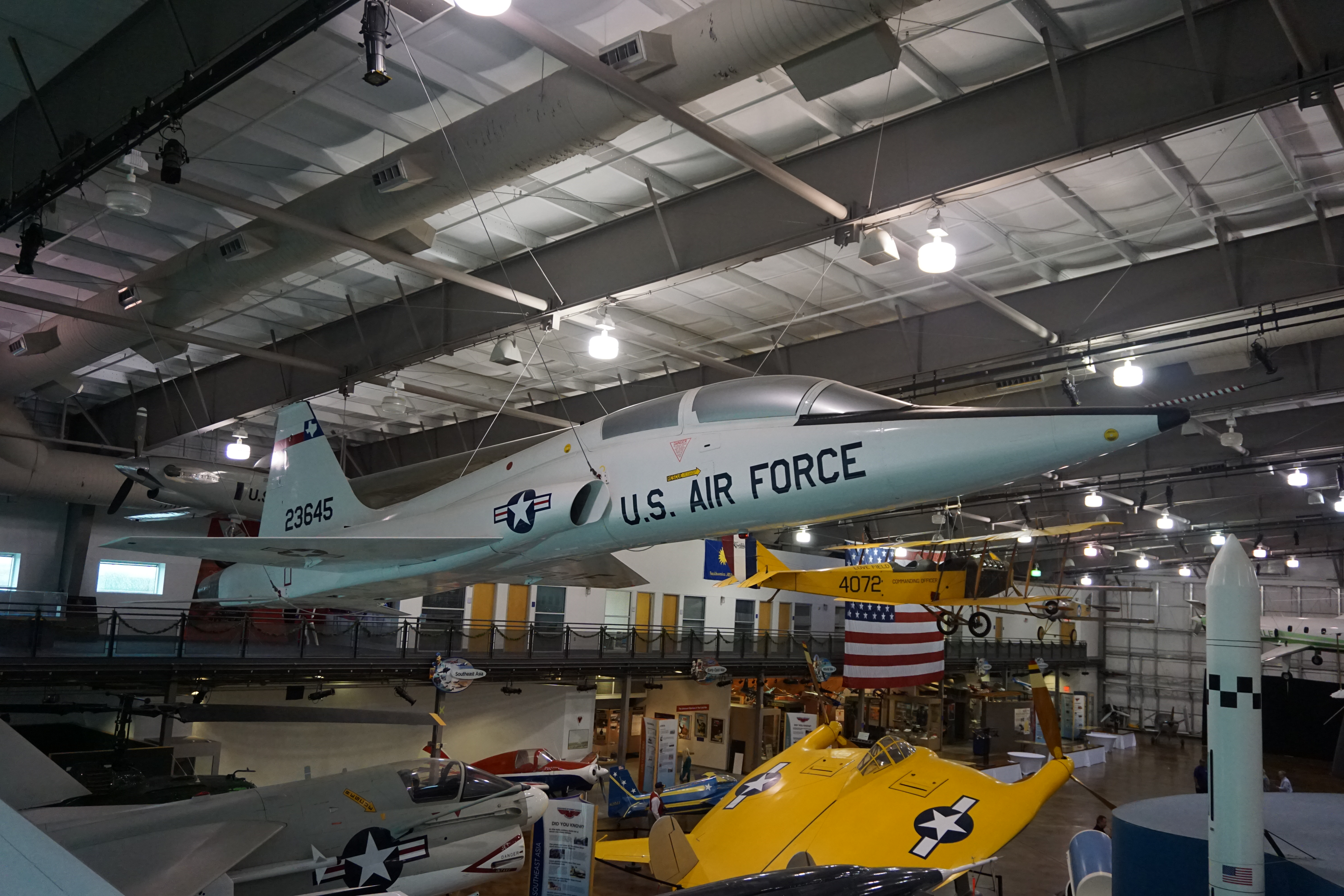 A Northrop T-38 Talon on display at the Frontiers of Flight Museum at Dallas Love Field in Dallas, Texas (United States).